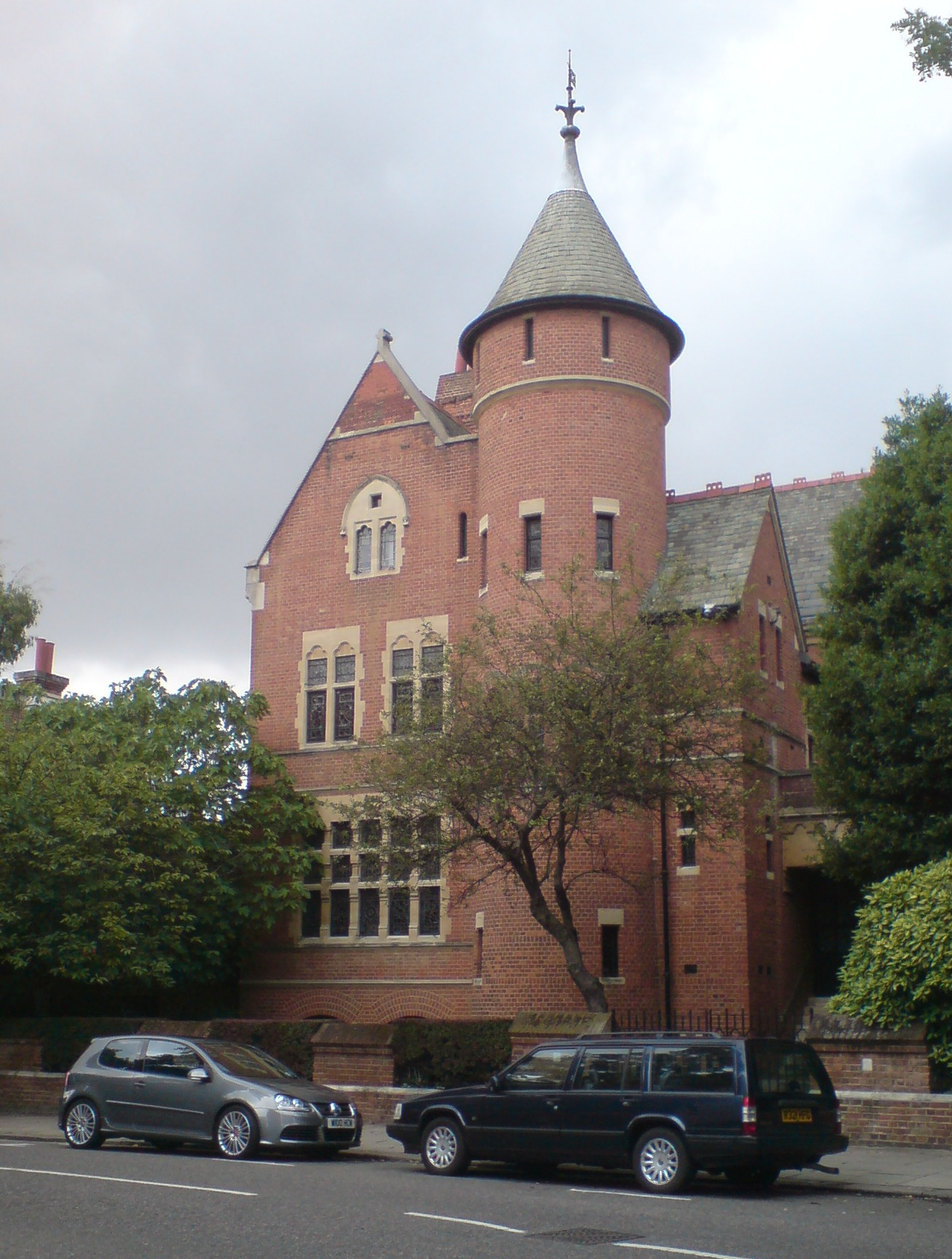 The Tower House in London